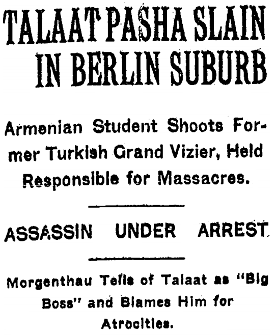 March 16, 1921 TALAAT PASHA SLAIN IN BERLIN SUBURB; Armenian Student Shoots Former Turkish Grand Vizier, HeldResponsible for Massacres.ASSASSIN UNDER ARRESTMorgenthau Tells of Talaat as "BigBoss" and Blames Him forAtrocities. Morgenthau Blamed Him for Massacres Visit to Turkey's "Big Boss."